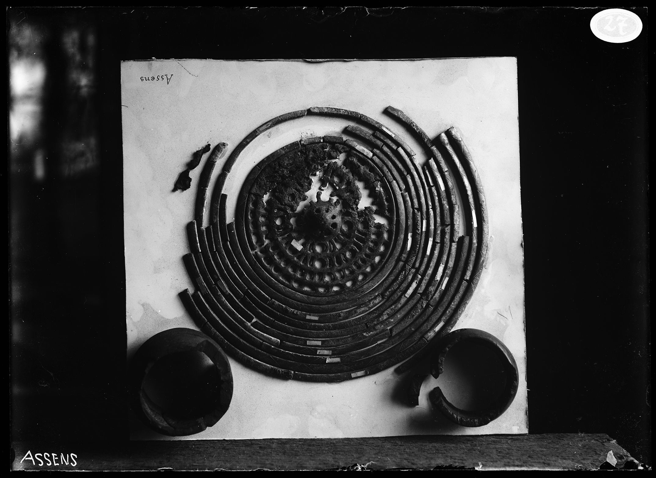 Bracelets